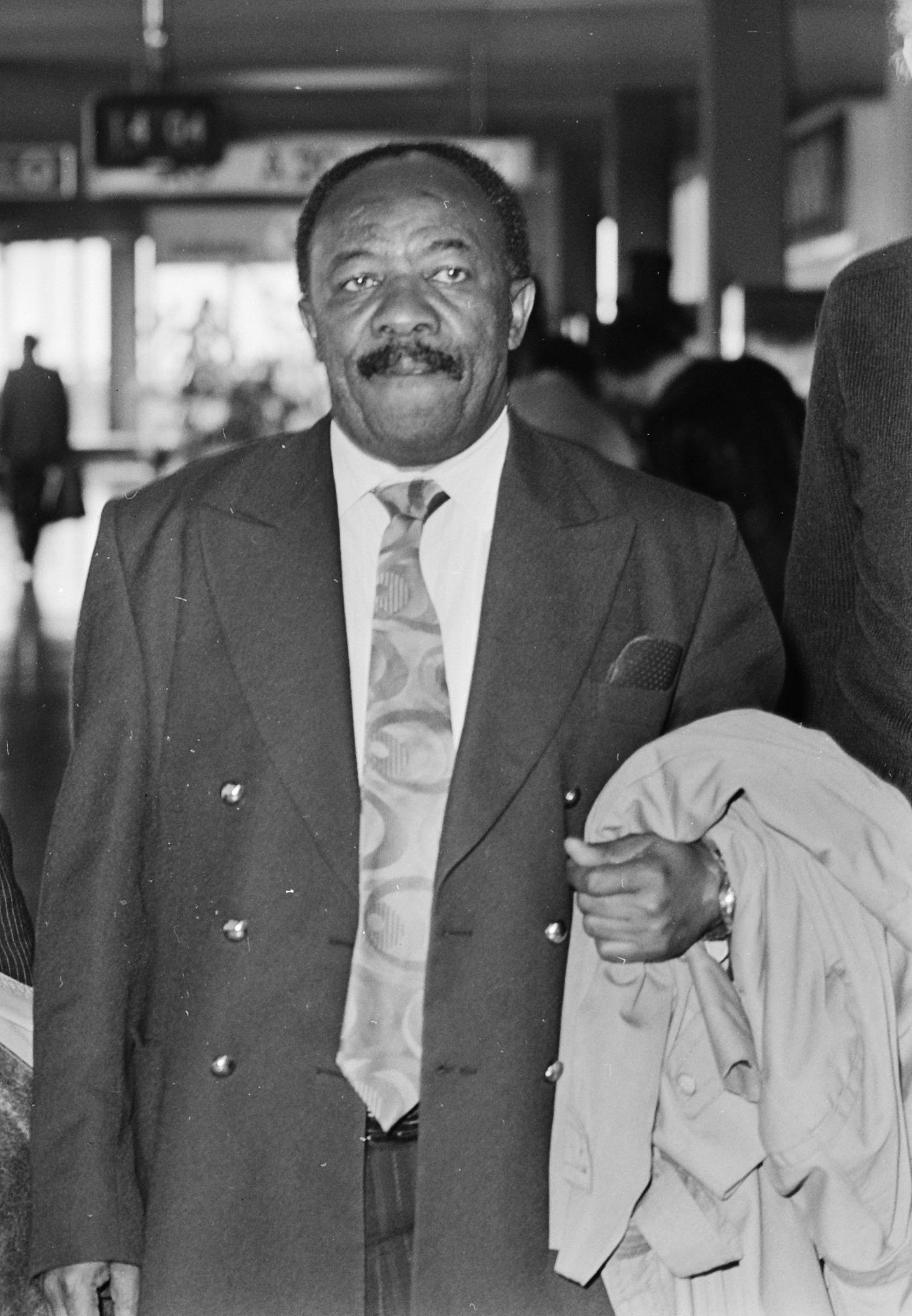 Aankomst Schiphol leider Zuid Afrikaanse bevrijdingsleger ANC Alfred Nzo